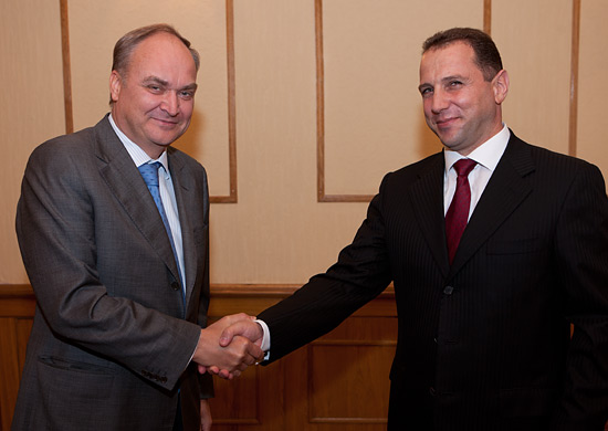 Заместитель Министра обороны РФ Анатолий Антонов встретился с первым заместителем Министра обороны Армении Давидом Тонояном